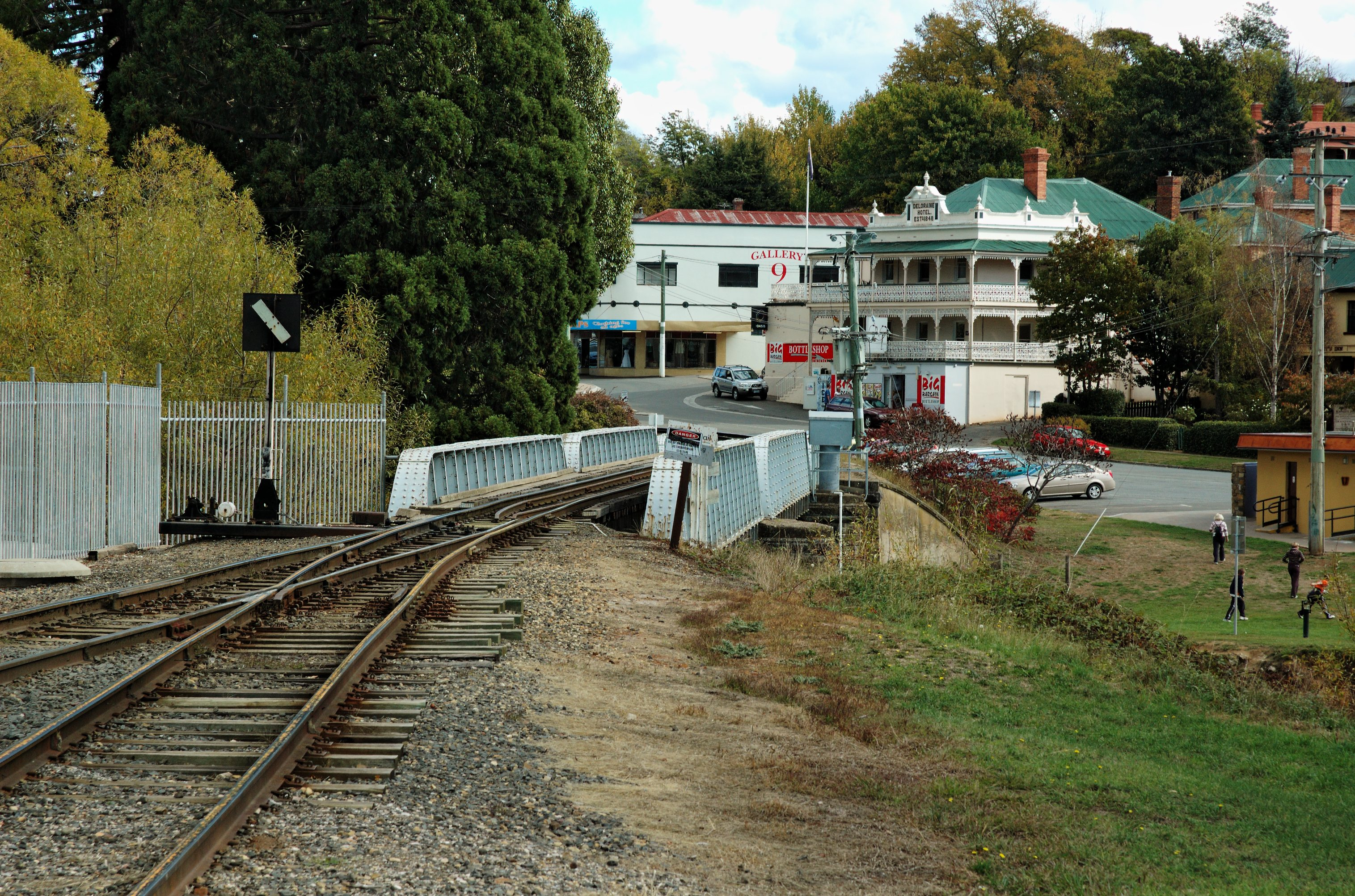 Railway bridge over the Meander River in Deloraine, Tasmania.